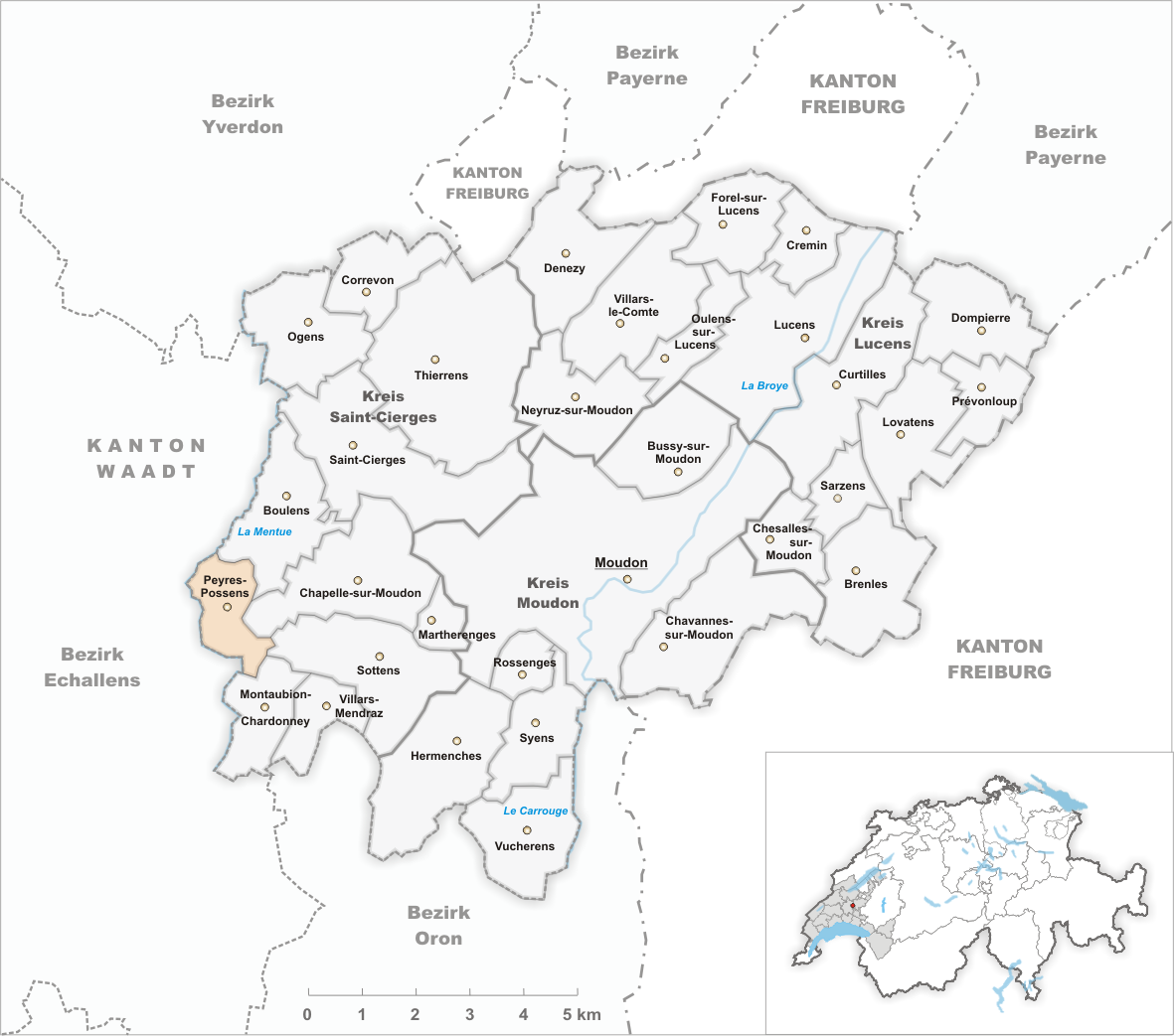 Municipality Peyres-Possens